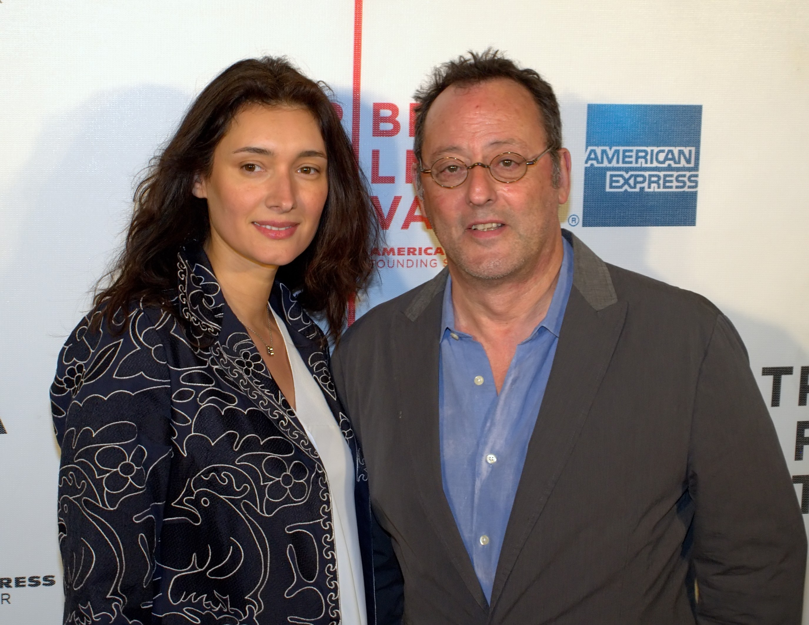 Zofia Borucka and Jean Reno at the 2010 Tribeca Film Festival.